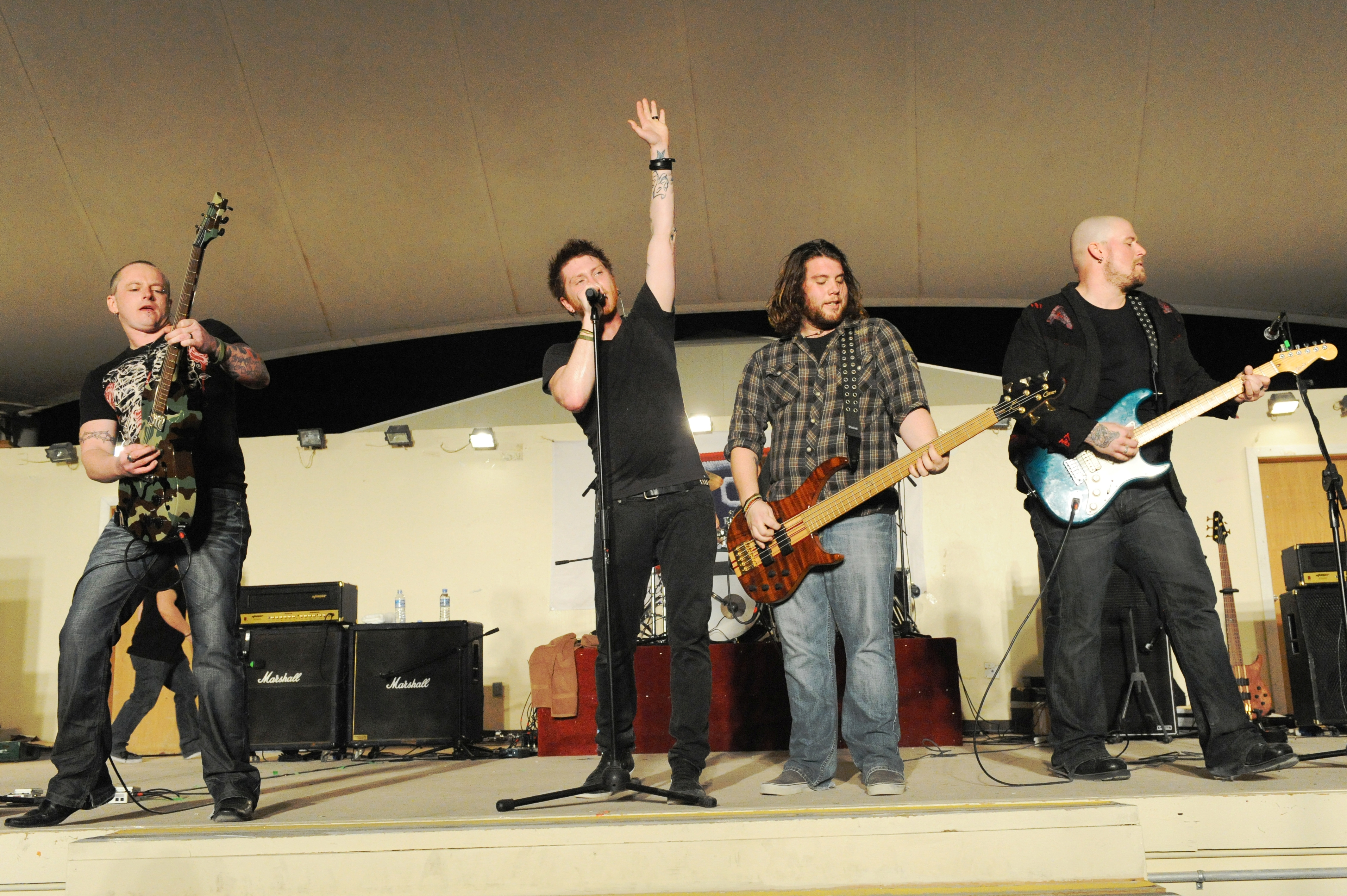 Rock band "Saving Abel" performed for servicemembers at a non-disclosed Southwest Asia location February 22 as part of a USO tour.